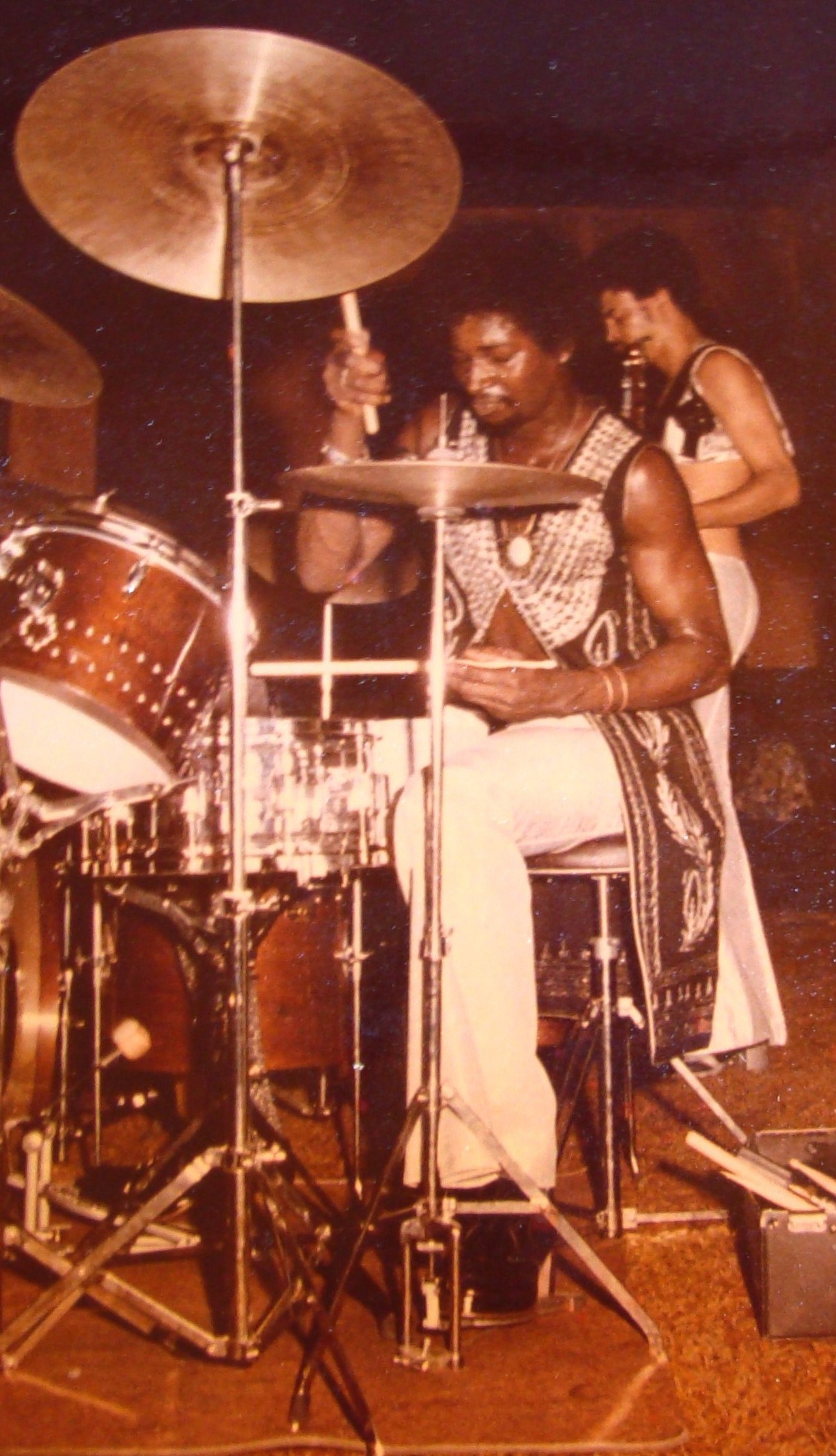 Drummer Robin Russell performing with New Birth at the Total Experience Club, Los Angeles, California - 1974